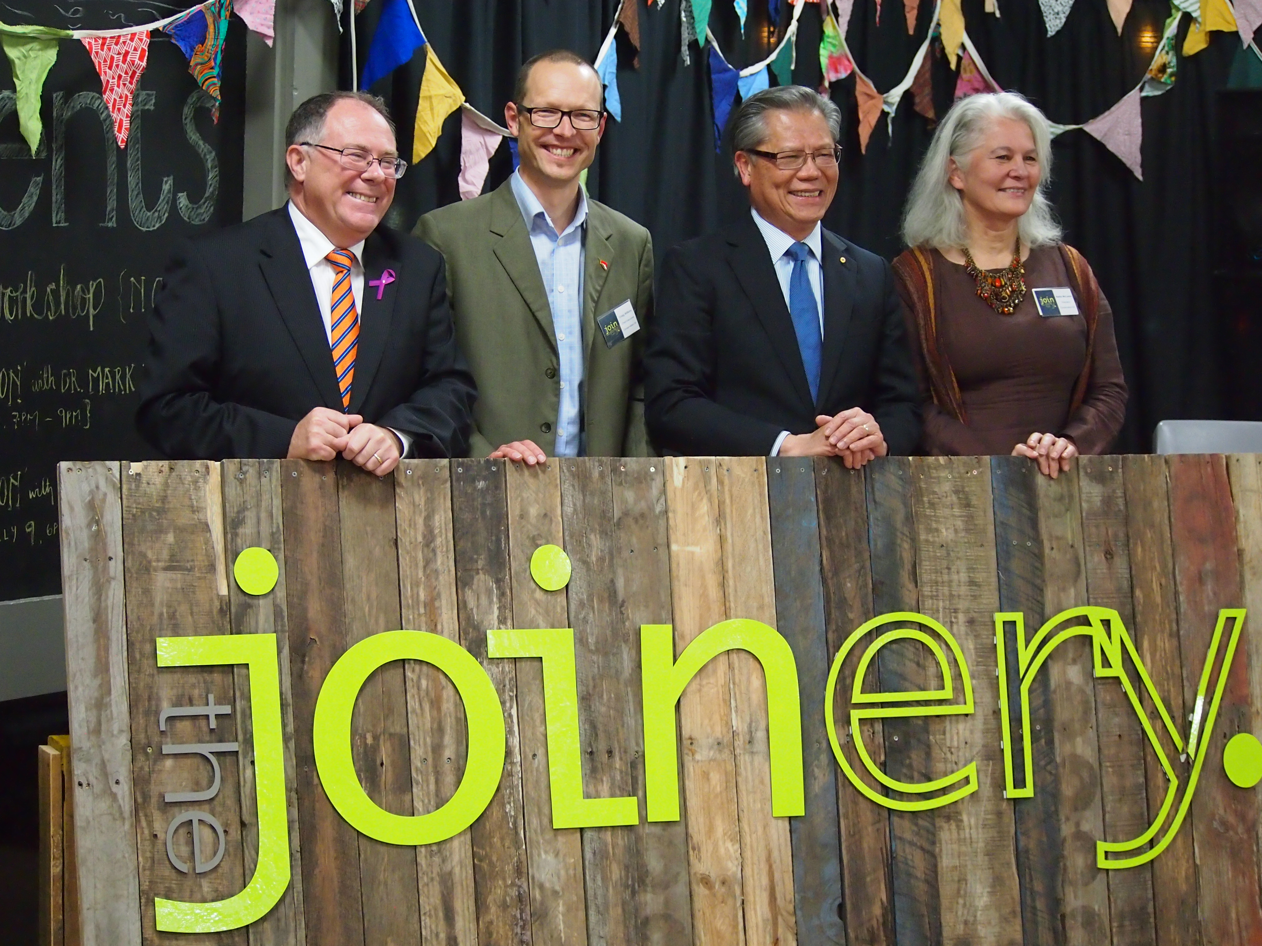 Official opening of the Conservation Council of South Australia's new headquarters, The Joinery, 4 June 2015. (l-r) SA Environment Minister the Hon. Ian Hunter, MLC; CCSA CEO Craig Wilkinson; Governor of SA, the Hon. Hieu Van Le, AO: CCSA President Nadia McLaren. Original filename = P6046377.JPG